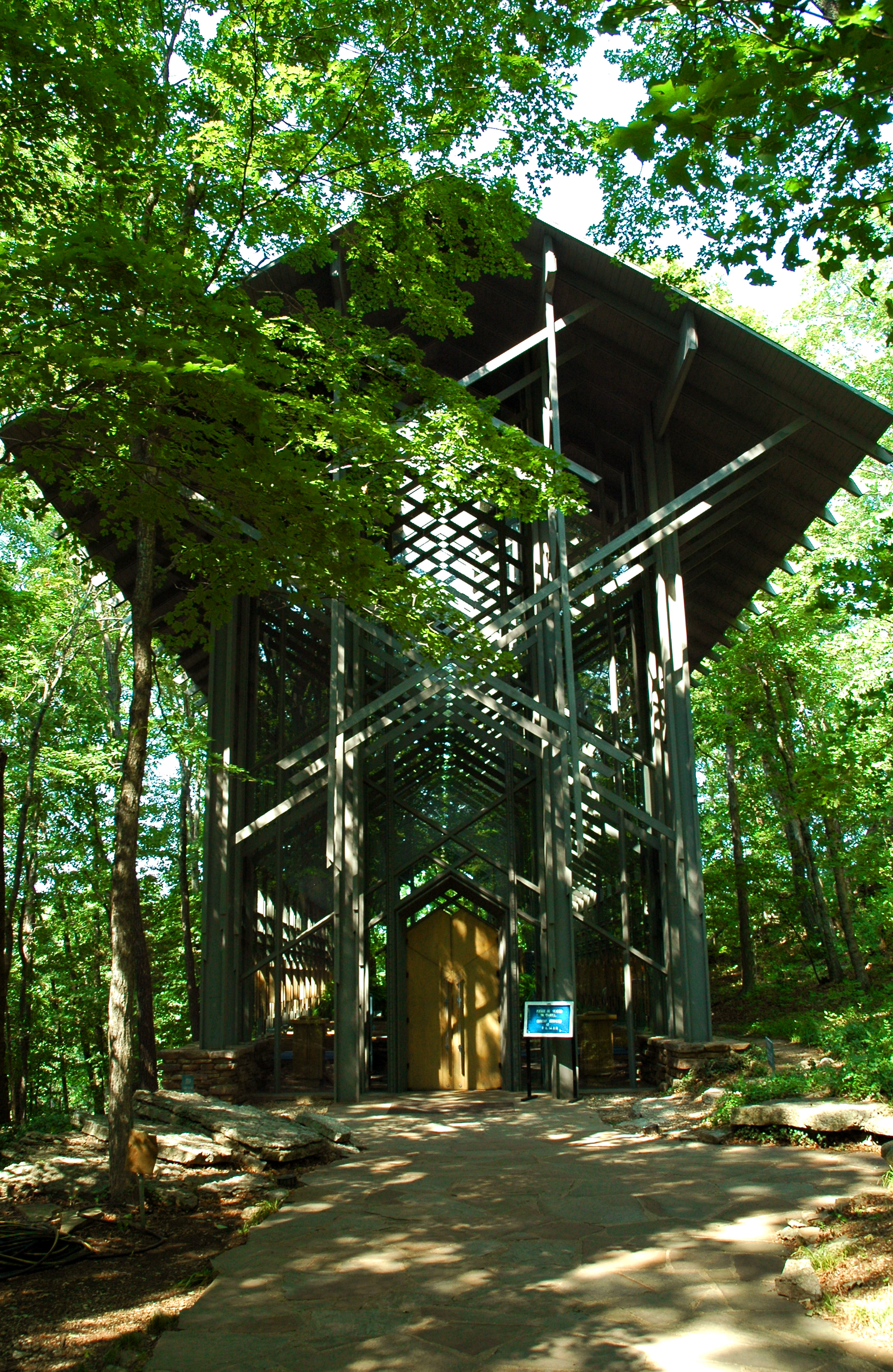 Just outside Eureka Springs in the Arkansas Ozarks--itself a divine place--lies this small, peaceful, non-denominational chapel. Even as I feel the distance between the organized religion I was raised with and myself grow, places like this remind me of why the underlying faith meant and continues to mean so much to me. Designed by E. Fay Jones in 1979, completed in July 1980.